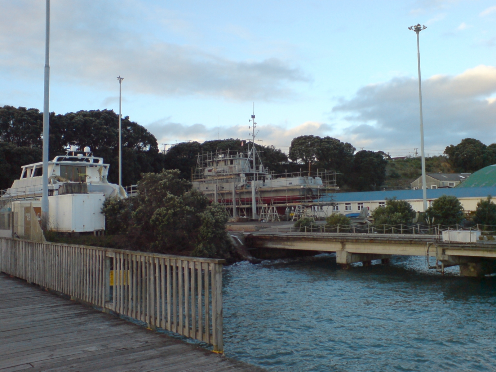 The patrol vessel HMNZS Kahu on the slip of the Devonport Naval Base in Auckland, New Zealand.